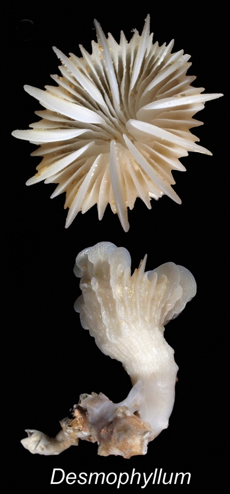 Cut-outs from original files: Recent_azooxanthellate_Scleractinia_(Cnidaria,_Anthozoa)_-_ZooKeys-227-001-g001 - 023